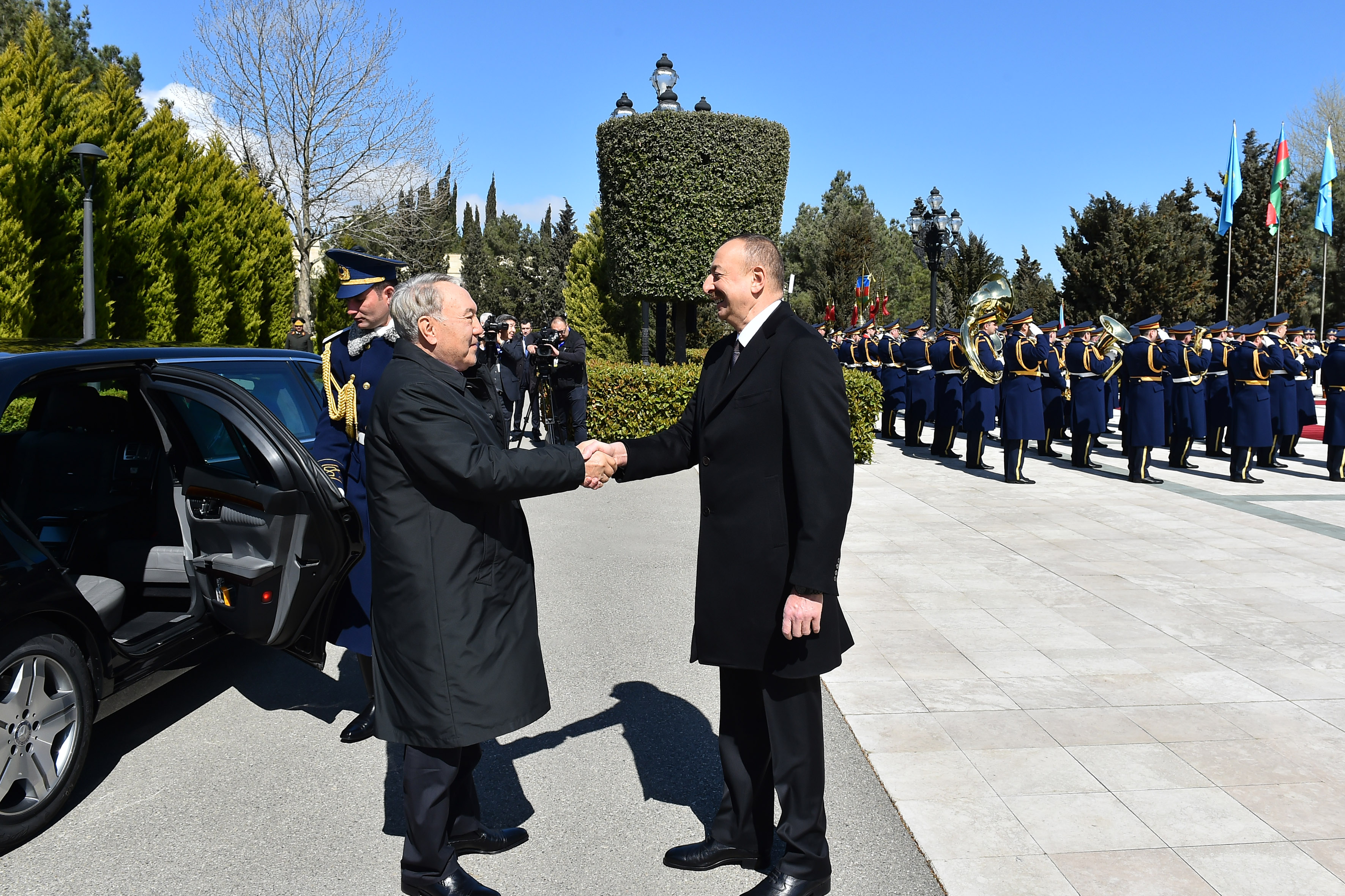 Official welcome ceremony was held for Kazakh President Nursultan Nazarbayev (Azerbaijan-Kazakhstan relations)